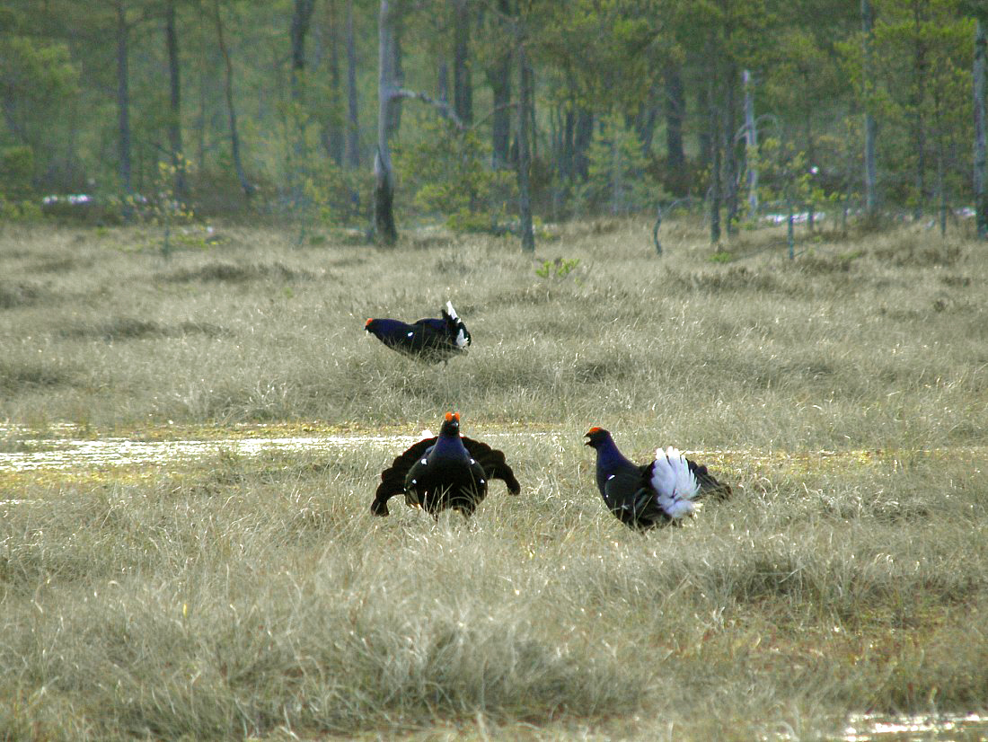 Black Grouse, saw about 10 ex of them. They had their little show for me. This is a wet moss so its difficult to walk around here but i managed it. The best is to go here during the evening before and wait till the morning (and sleep if possible). Realy worth it. I like the blue shine they have on their troth. This realy is the best time to see these.